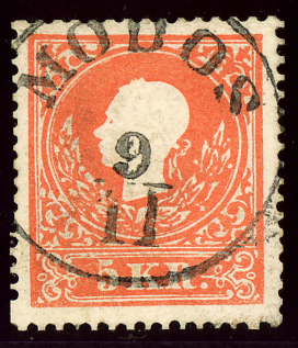 KK stamp type I (1858 issue) cancelled at Modos, Jaša Tomić, Sečanj, Vojvodina (Serbia) - 20 points Mueller